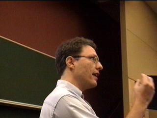 Picture of italian philosopher Luciano Floridi